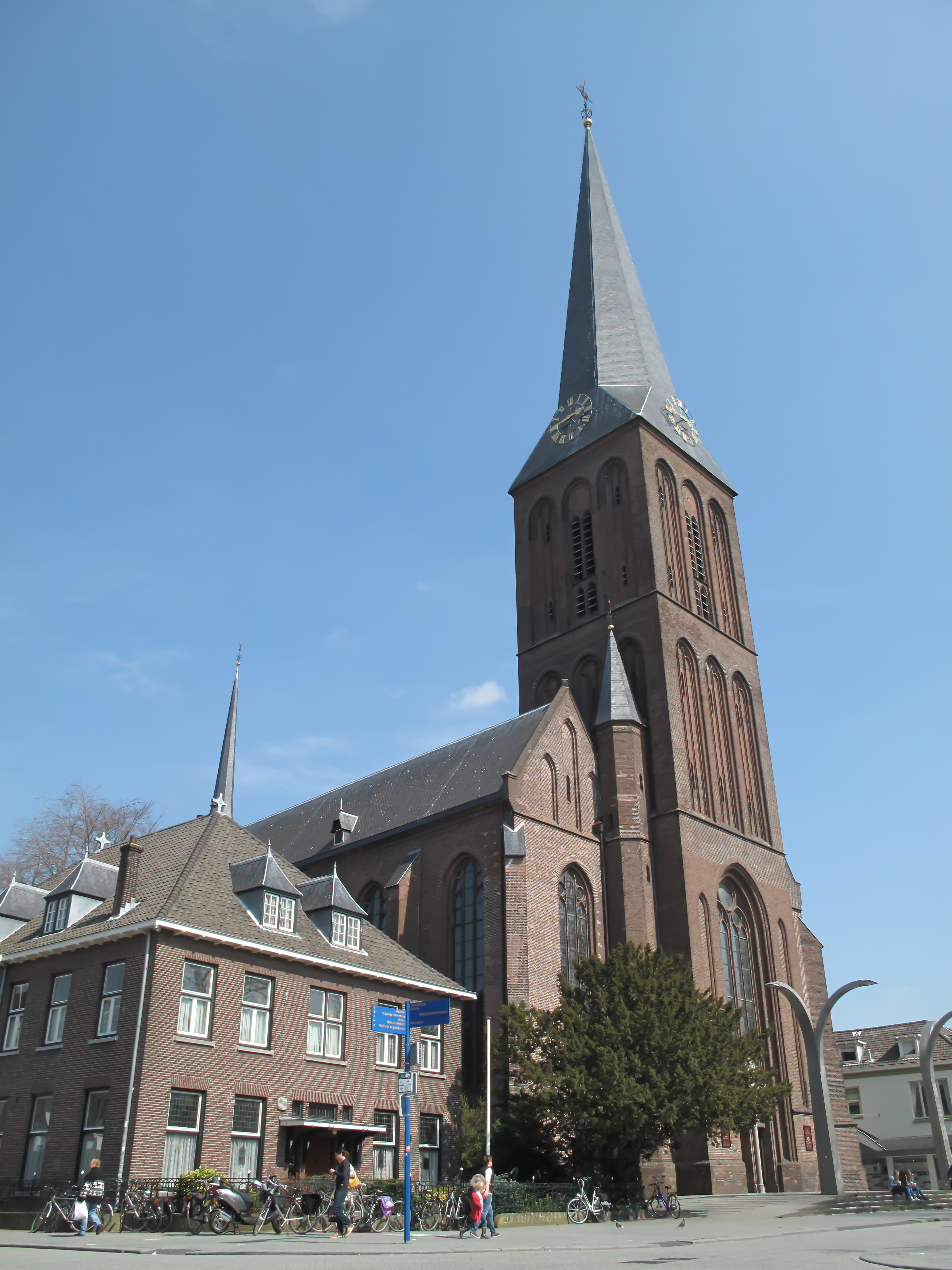 Hengelo, basilica: de Sint Lambertusbasiliek